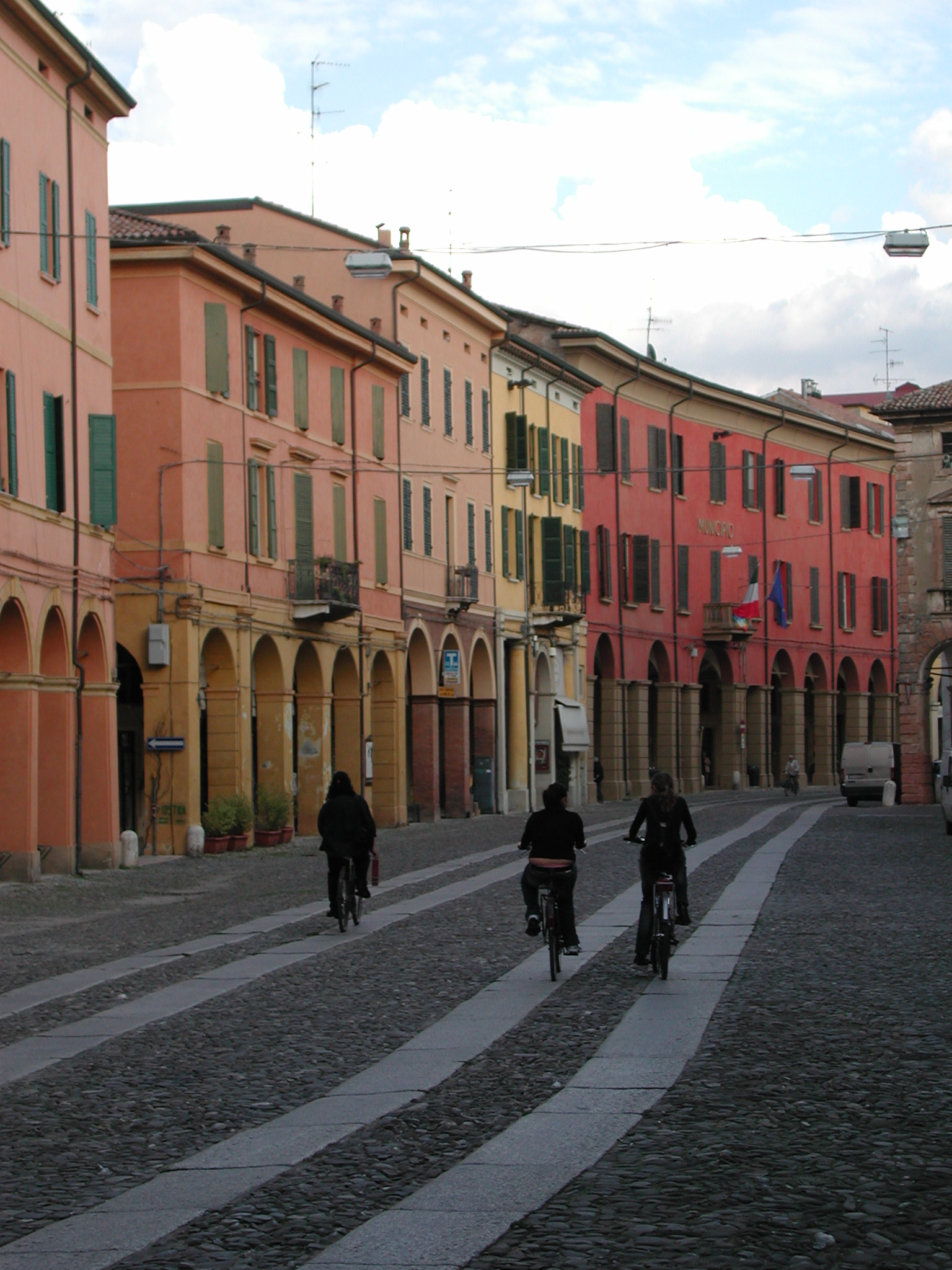 Correggio (Italy) a town near Reggio Emilia, Italy